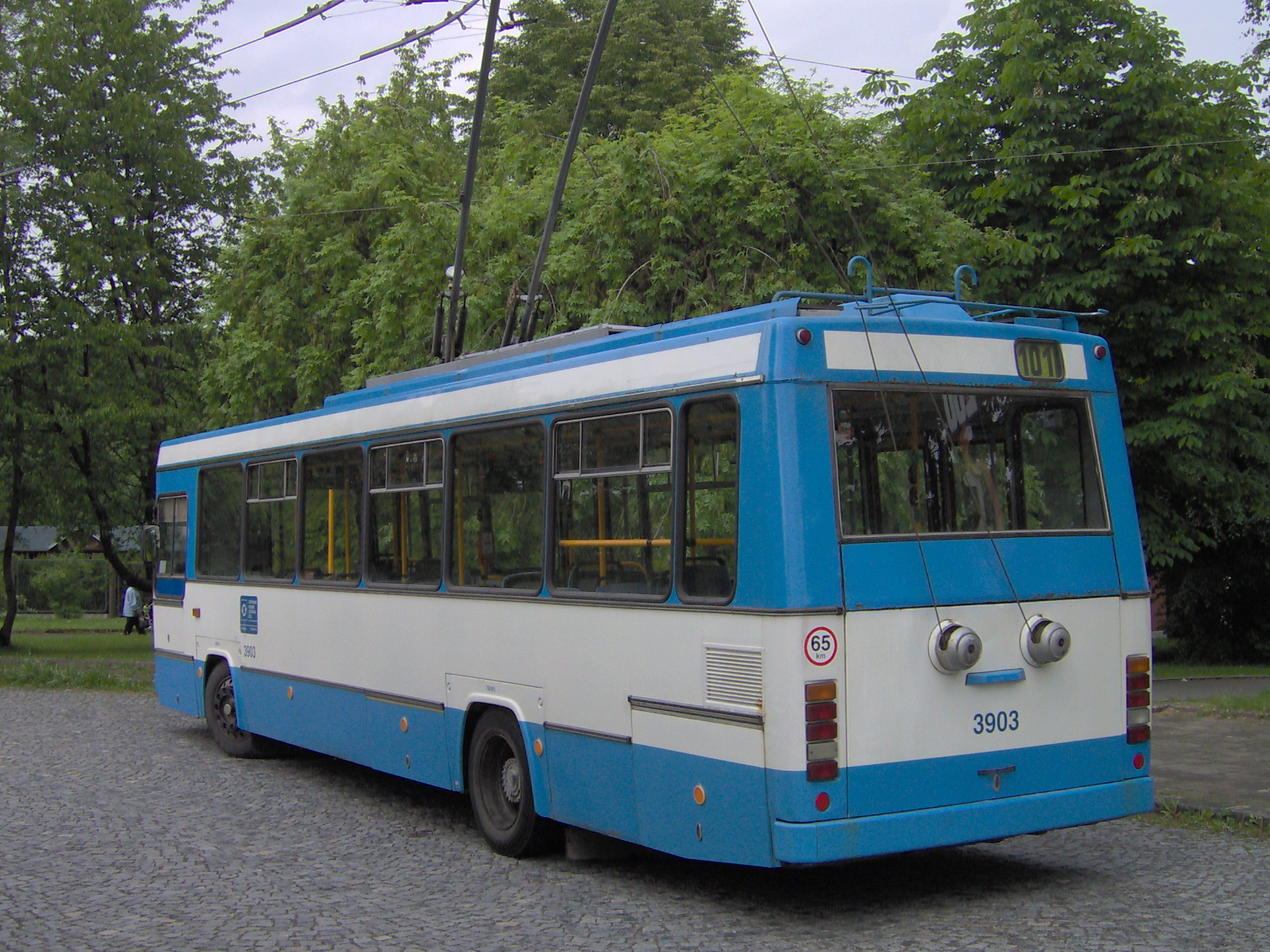 Škoda 17Tr trolleybus in Ostrava